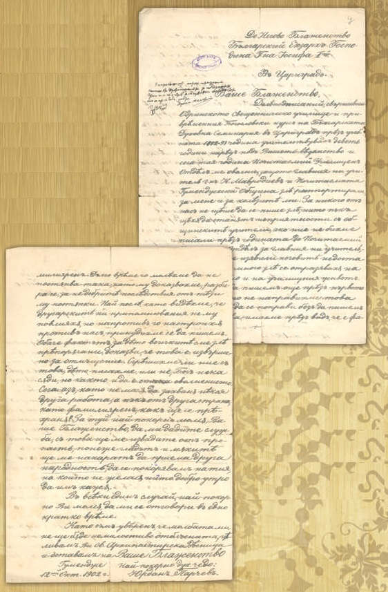 Letter from Yordan Parchev to Joseph I 12 October 1902